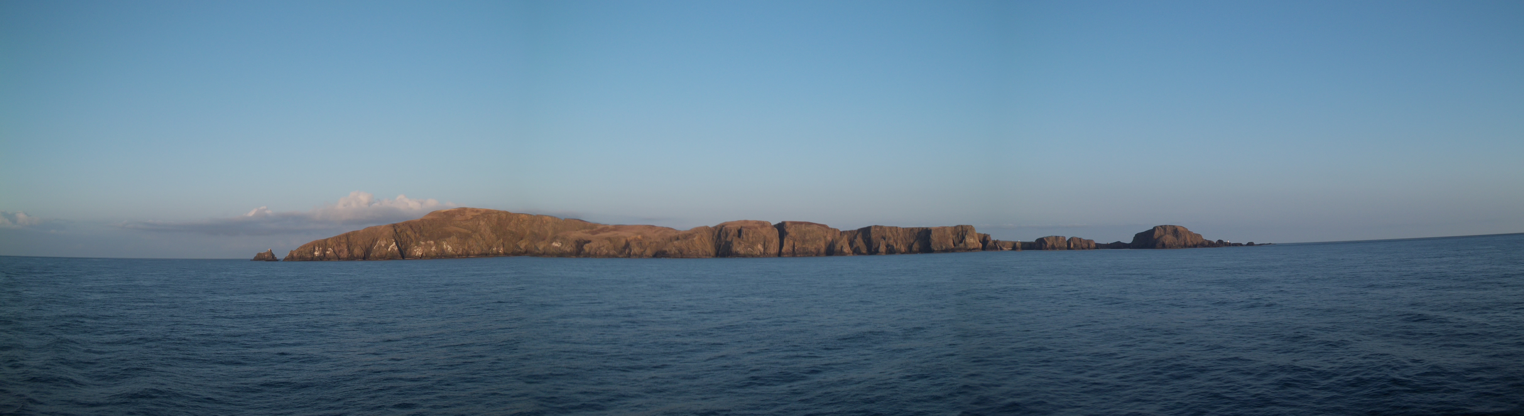 Fair Isle, located between the Shetland and Orkney islands, in Scotland. Viewed from aboard a ferry, looking east, in the evening.